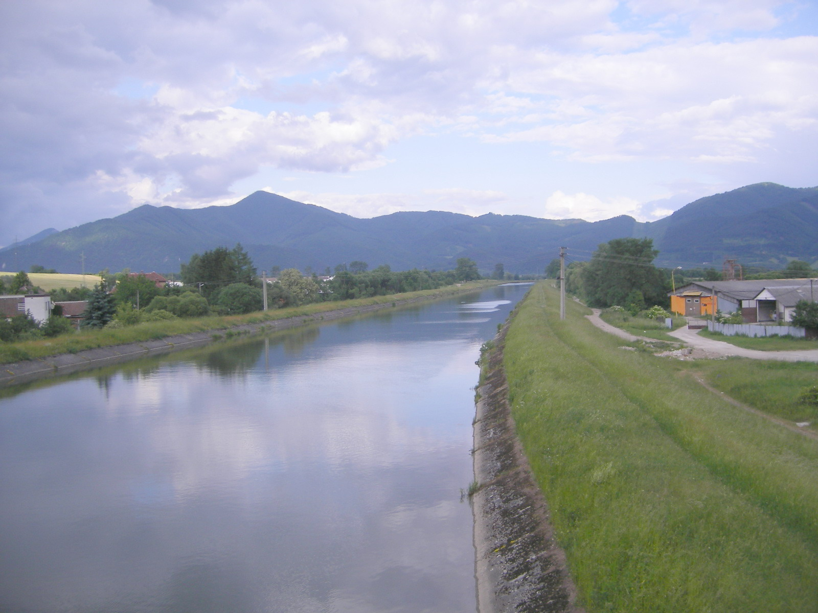 Turany - Krpeľany Canal